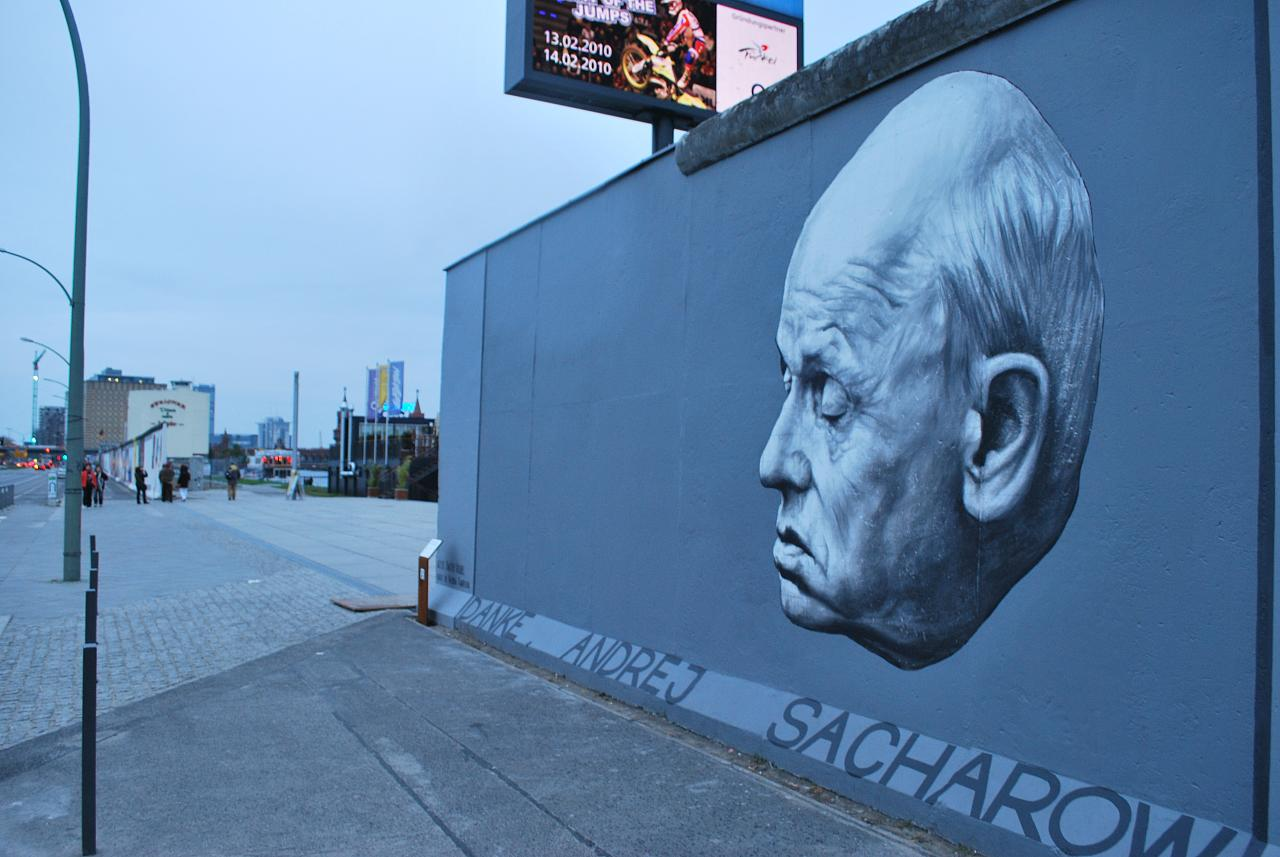 East Side gallery, Berlin, Germany. Andrej Sacharow (Andrei Sakharov, 1921-1989) was a Soviet nuclear physicist, dissident and human rights activist. Sakharov was an advocate of reforms in the Soviet Union. He received the Nobel Peace Prize in 1975. Dmitry Vrubel is a well-known Russian contemporary artist.